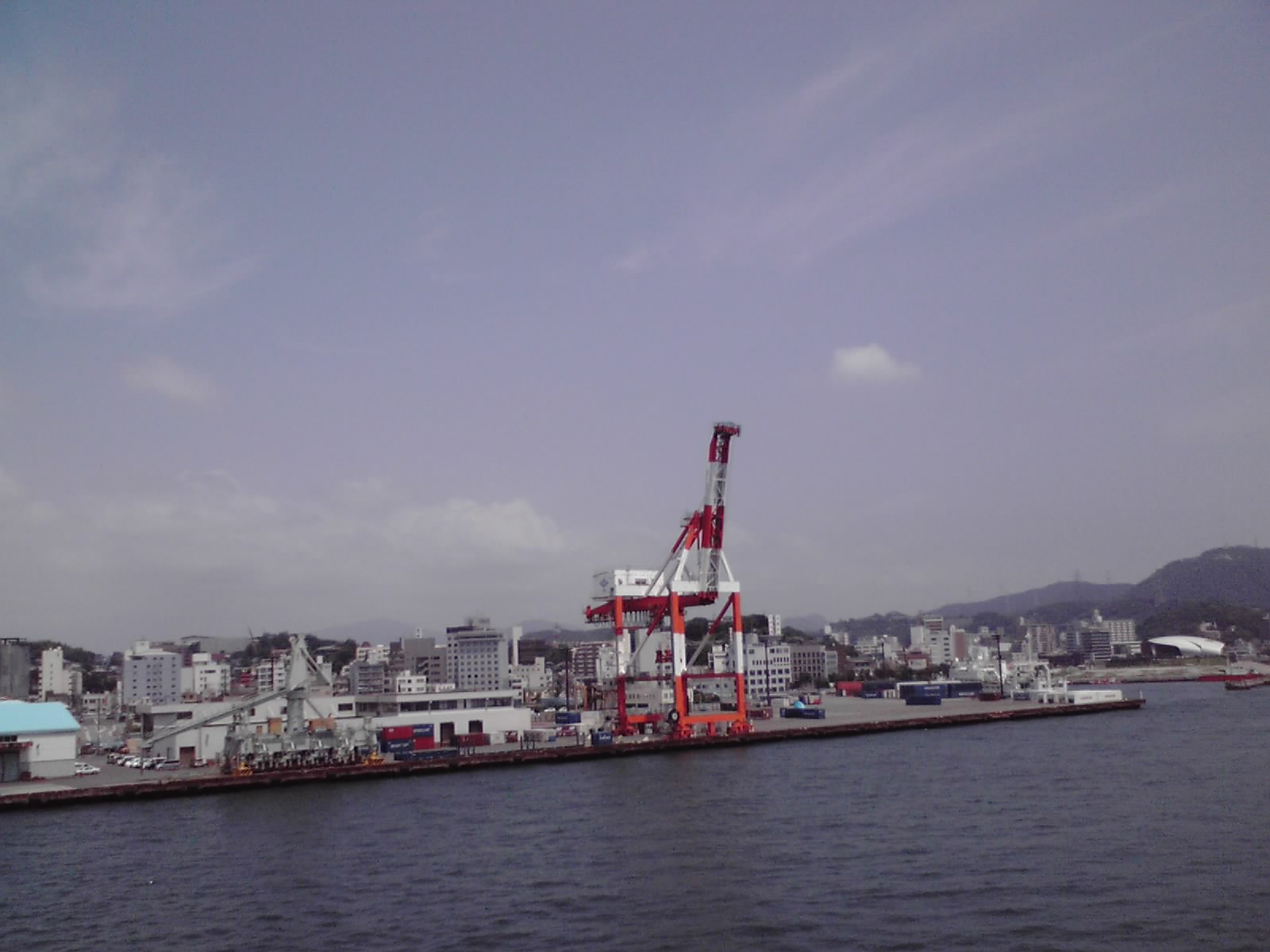 port of shimonoseki